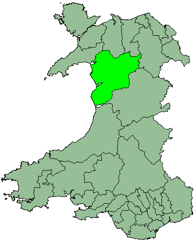 Wales - Meirionnydd district 1974